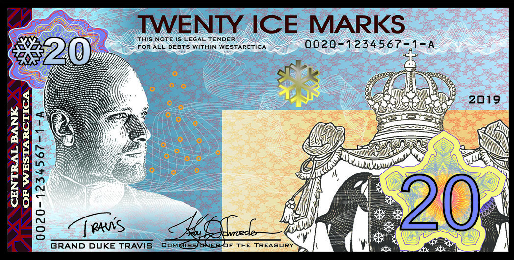 20 eismarks